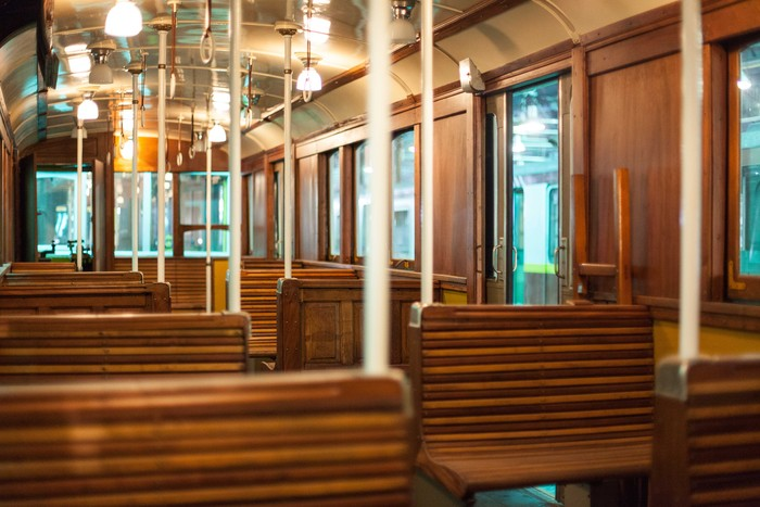 A restored La Brugeoise car inside the Polvorín workshops.